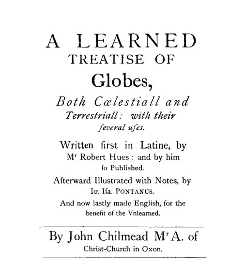 English title page of Hues, Robert; Clements R. Markham (ed.) (1889). Tractatus de globis et eorum usu: A Treatise Descriptive of the Globes Constructed by Emery Molyneux and Published in 1592 [Hakluyt Society, 1st ser., pt. II, no. 79a]. London: Hakluyt Society.